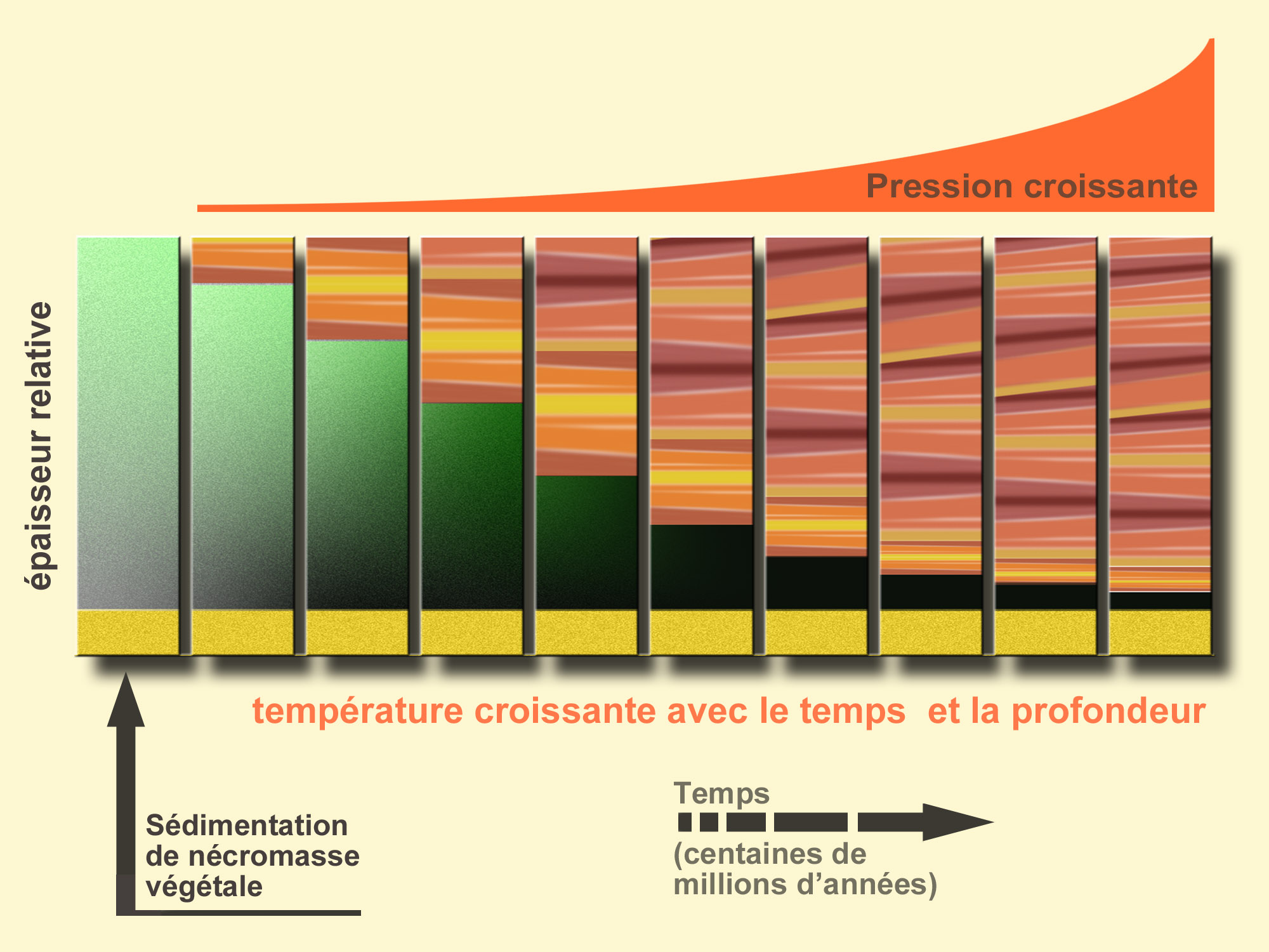 Representation of the process of coalification = transformation of more or less thick layer of plant debris (green left) in coal (coal black right) during geological ages. This is a very slow process (millions of years or hundreds of millions of years). The densest coal and carbon-rich are called high-ranking (they are older). Recent coals are said to be low rank.